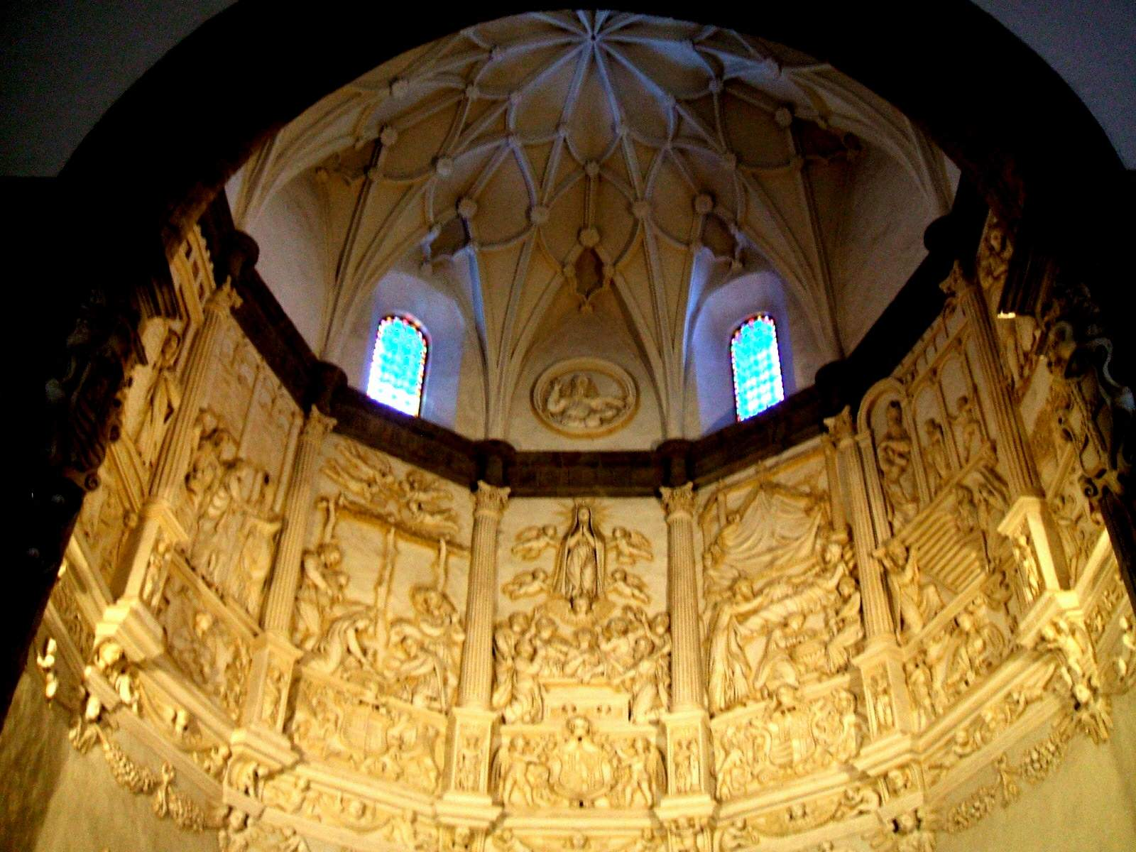 Relieves estucados de la Capilla del Carmen de la Basílica de Nuestra Señora de los Milagros, Ágreda, Soria, Castilla y León, España